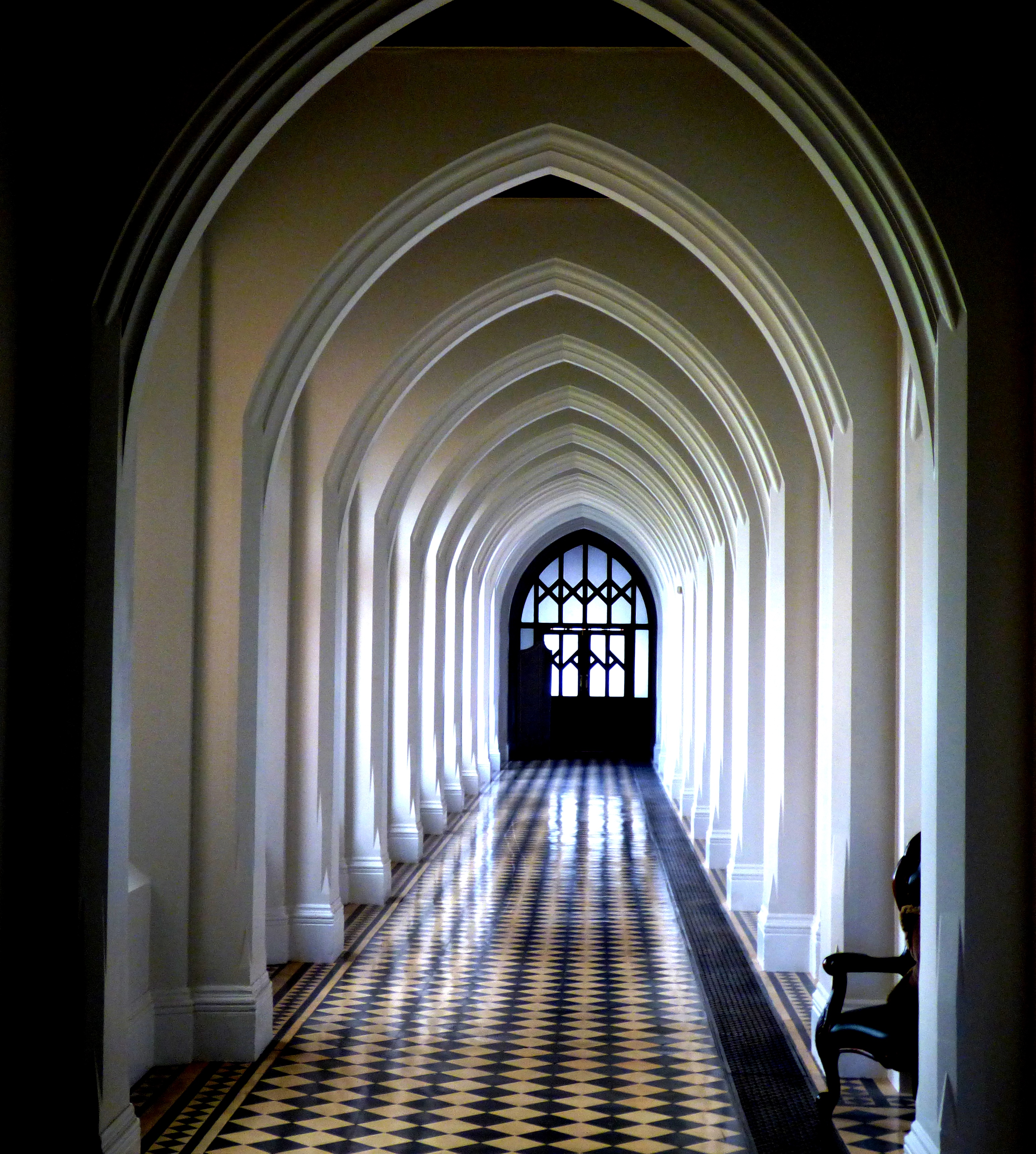 Corridor in Stanbrook Abbey, Worcestershire, UK.